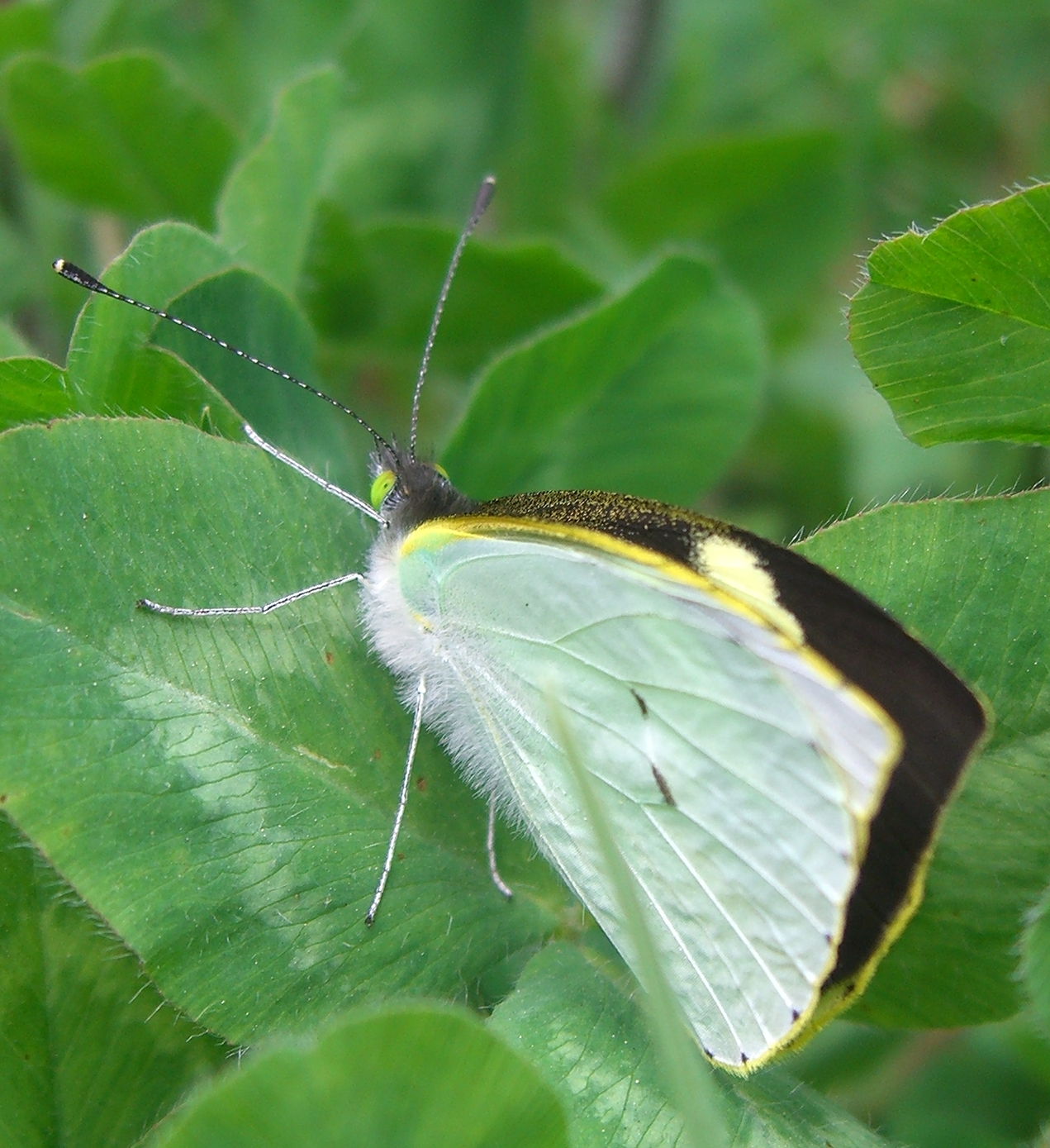 Please report references to .